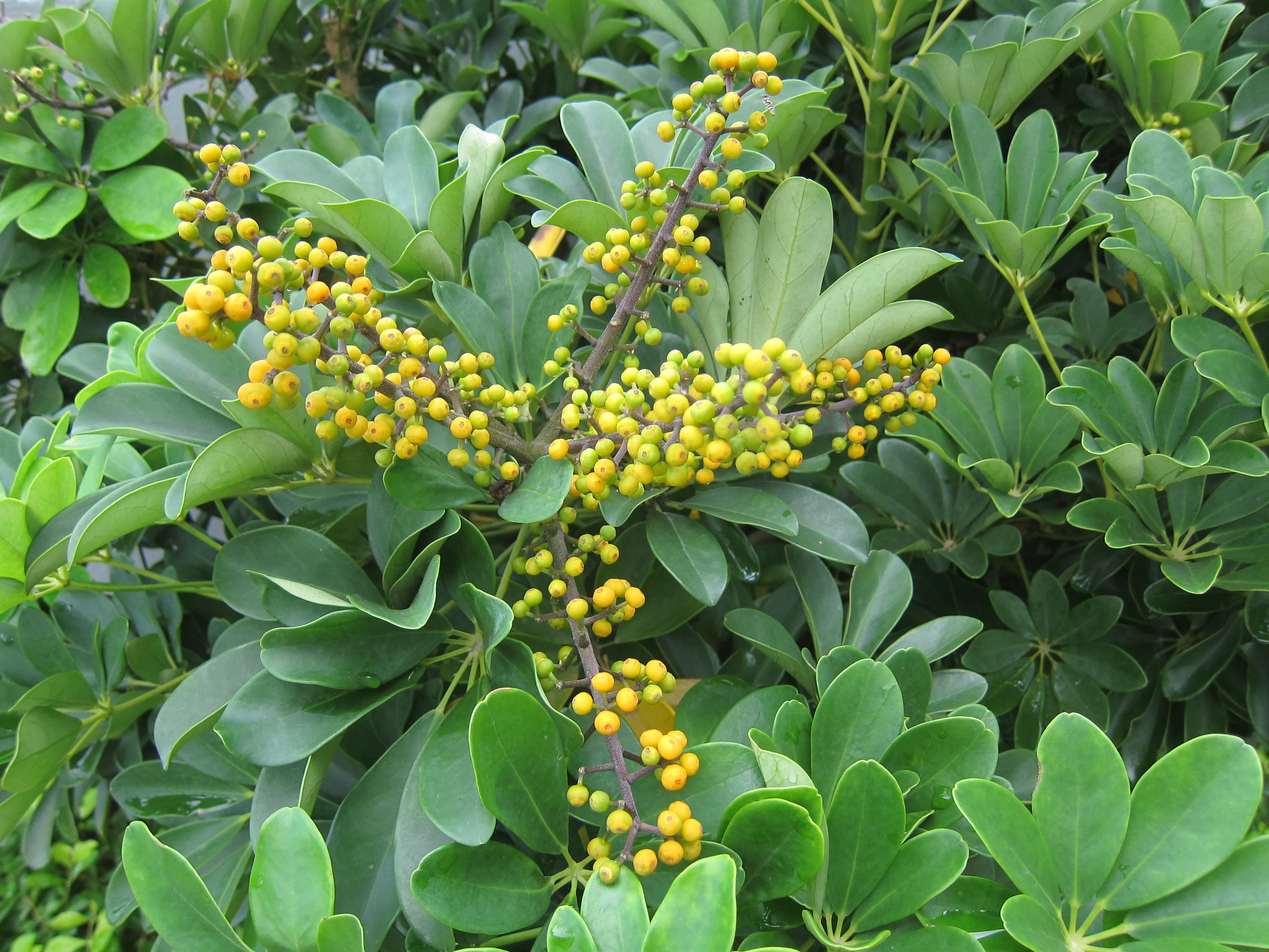 Schefflera arboricola with fruits in Heng Fa Chuen